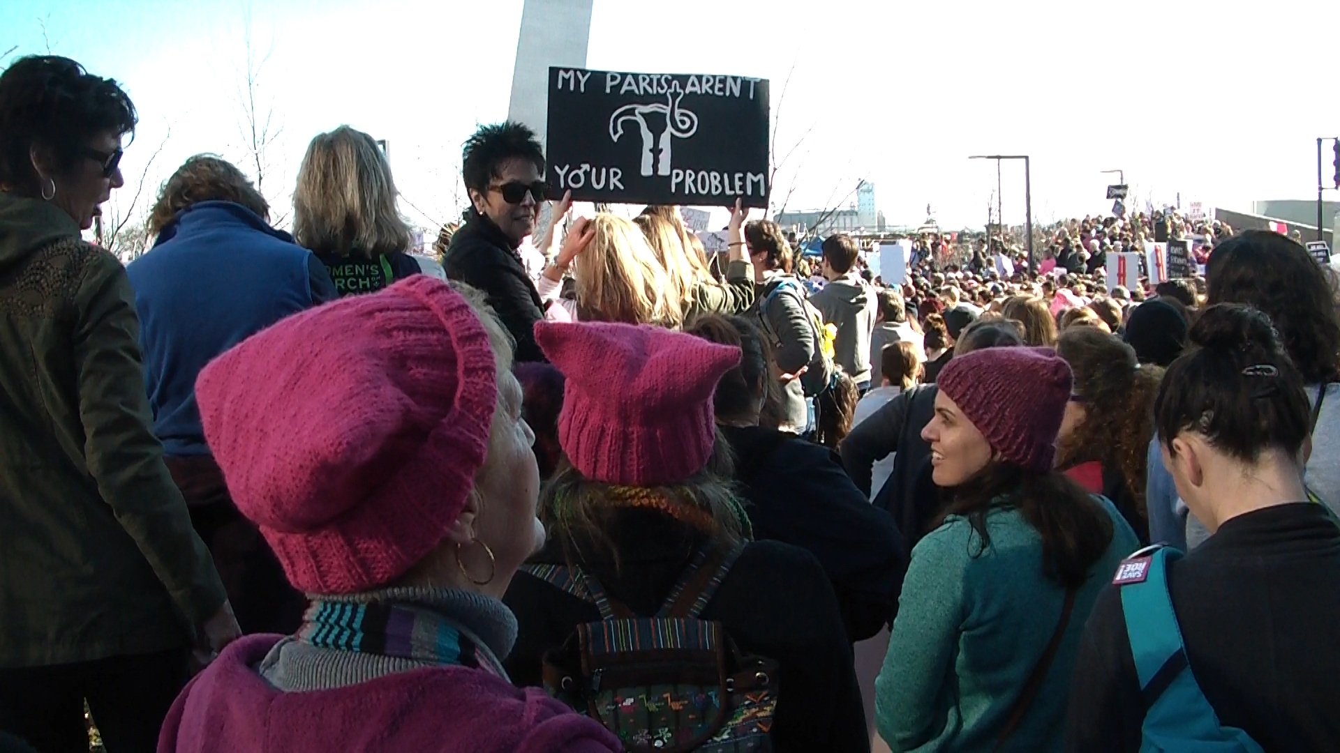 Thousands of women (and men) marched in St. Louis to demonstrate their beauty, strength and diversity - and to stand in solidarity with women marching all across the world that day, January 21, 2017, the day after the inauguration of Donald Trump. Many of us wore 'pussy hats' that we'd knitted to take back the power of the 'pussy,' a power so awesome that it has the new misogynistic president of the United States quaking.